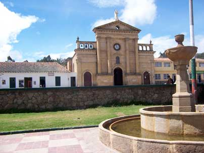 monumento gótico inaugurado en 1901